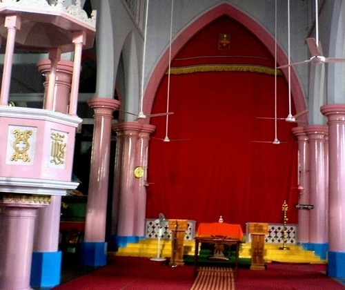 This picture is that of a traditional Nasrani Palli or church (or temple of worship). The picture shows a Nasrani palli of the Syro Malabar Catholic church within the Nasrani people. The Picture shows a Nasrani palli with the holy of holies containing the Nasrani Menorah or Mar thoma cross veiled by a red curtain in the tradition of ancient Jewish synagogue. This picture is an own work. The picture was taken by me in October 2006 in Kerala in South India. Robin klein 23:11, 5 November 2006 (UTC)